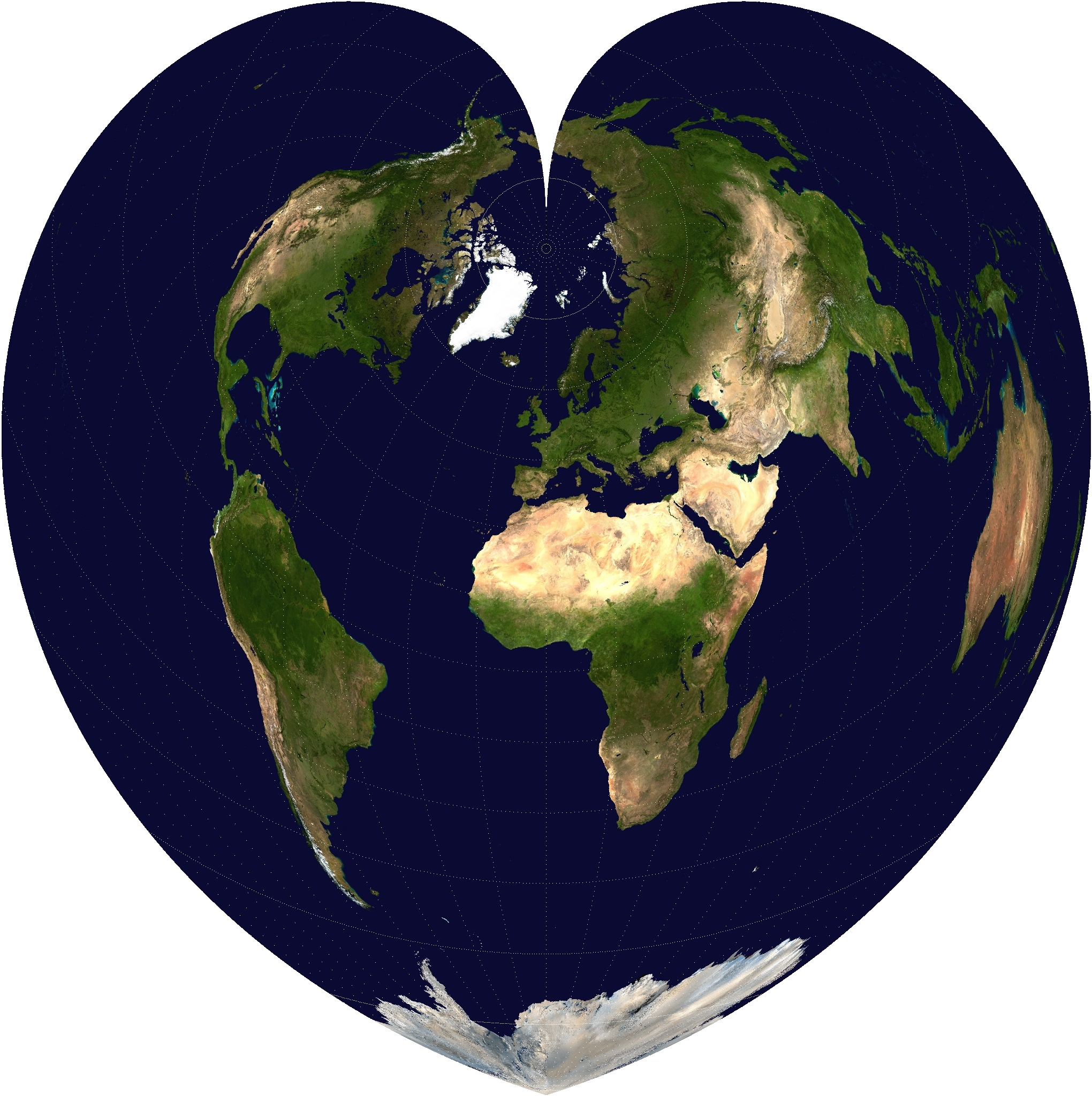 Werner projection of the Earth. Source image is from NASA's Earth Observatory "Blue Marble" series.